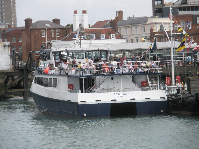 The Ashleigh R about to depart at Portsmouth Dockyard It gives tours of the harbour.